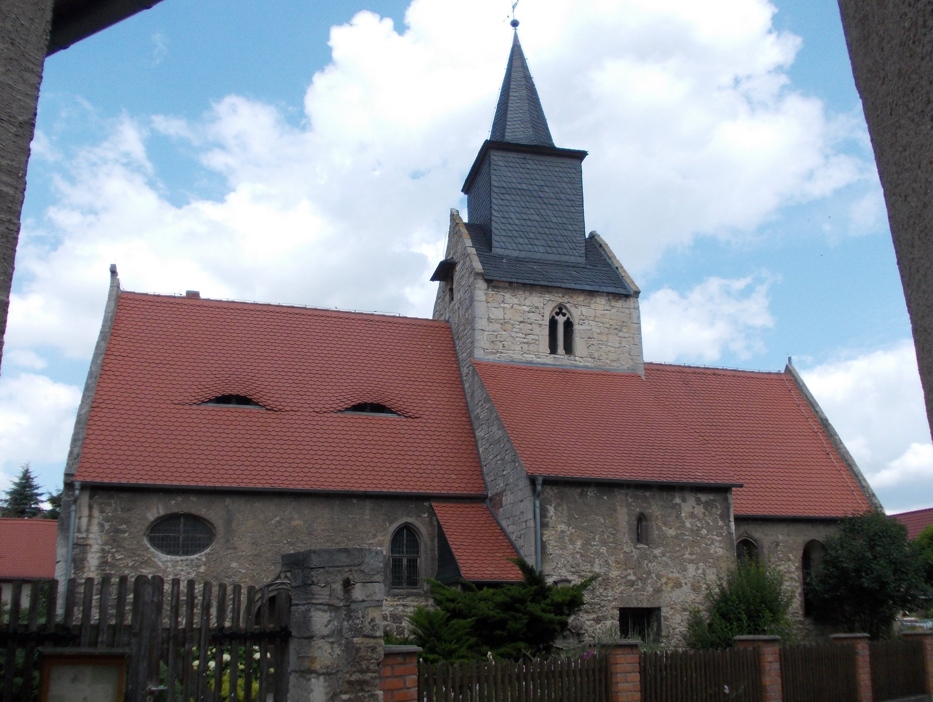 Zeuchfeld church (Freyburg/Unstrut, district: Burgenlandkreis, Saxony-Anhalt)